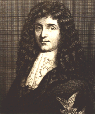 Jean-Baptiste Colbert